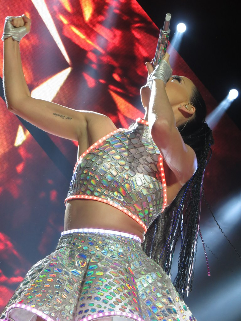 Katy Perry performing "Part of Me" at SEE Hydro in Glasgow in May 17, 2014.